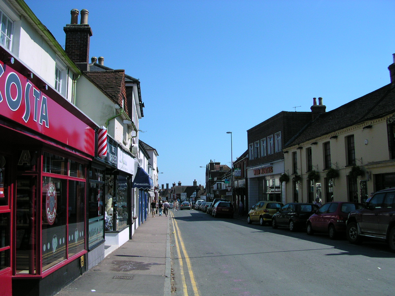 Hailsham, East Sussex, England.